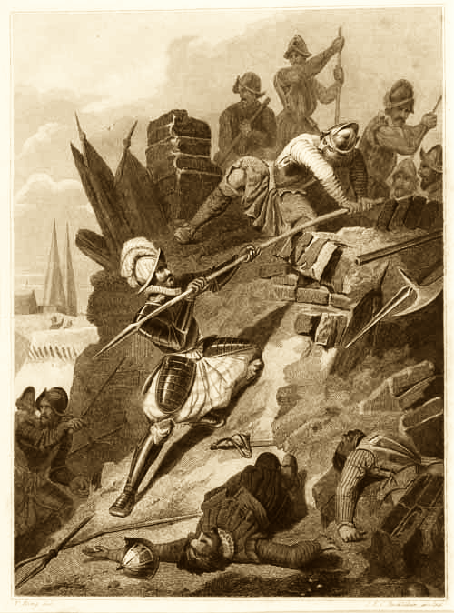 Happening during the forsaken siege by Leicester, sept. 1586. Edward Stanley is climbing along a speer from the enemy the walls at the attack of Spanish fortifications in front of the city Zutphen